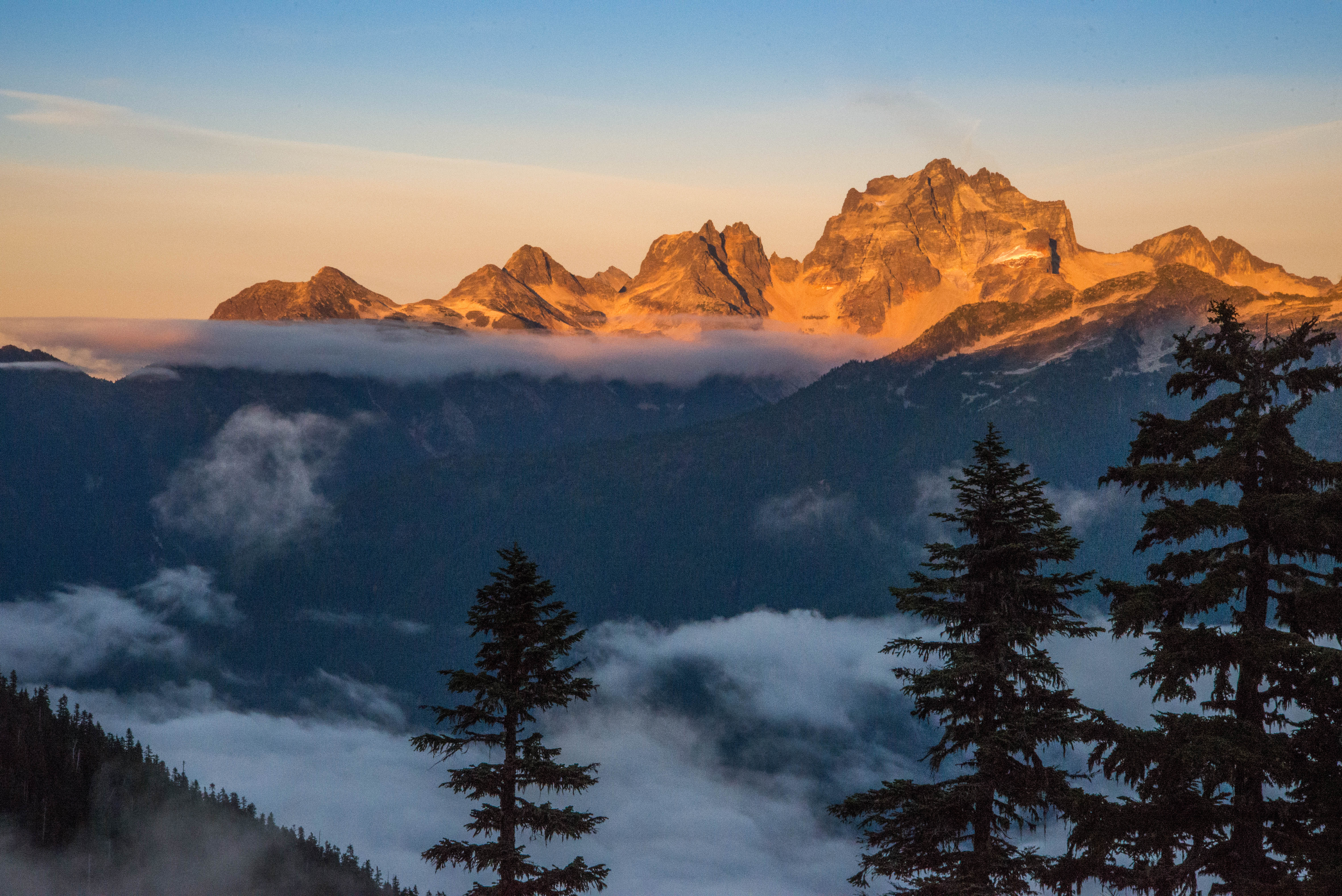 Mount Redoubt at sunset